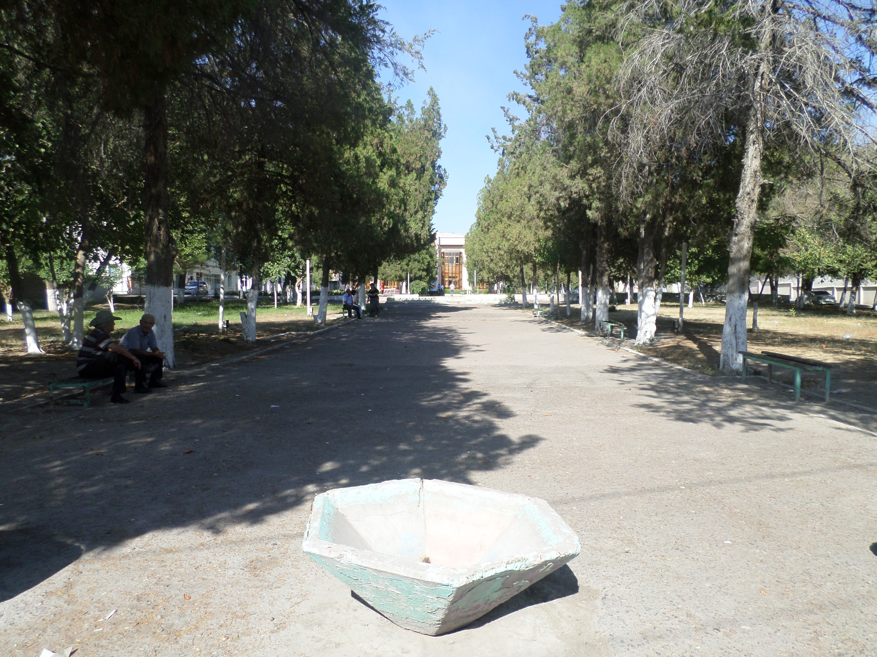 Street in Ohangaron